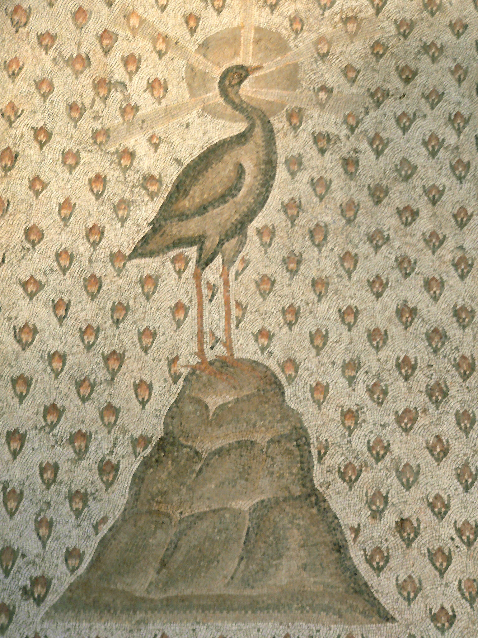 Phoenix and roses, detail. Pavement mosaic (marble and limestone), 2nd half of the 3rd century AD. From Daphne, a suburb of Antioch-on-the-Orontes (now Antakya in Turkey).